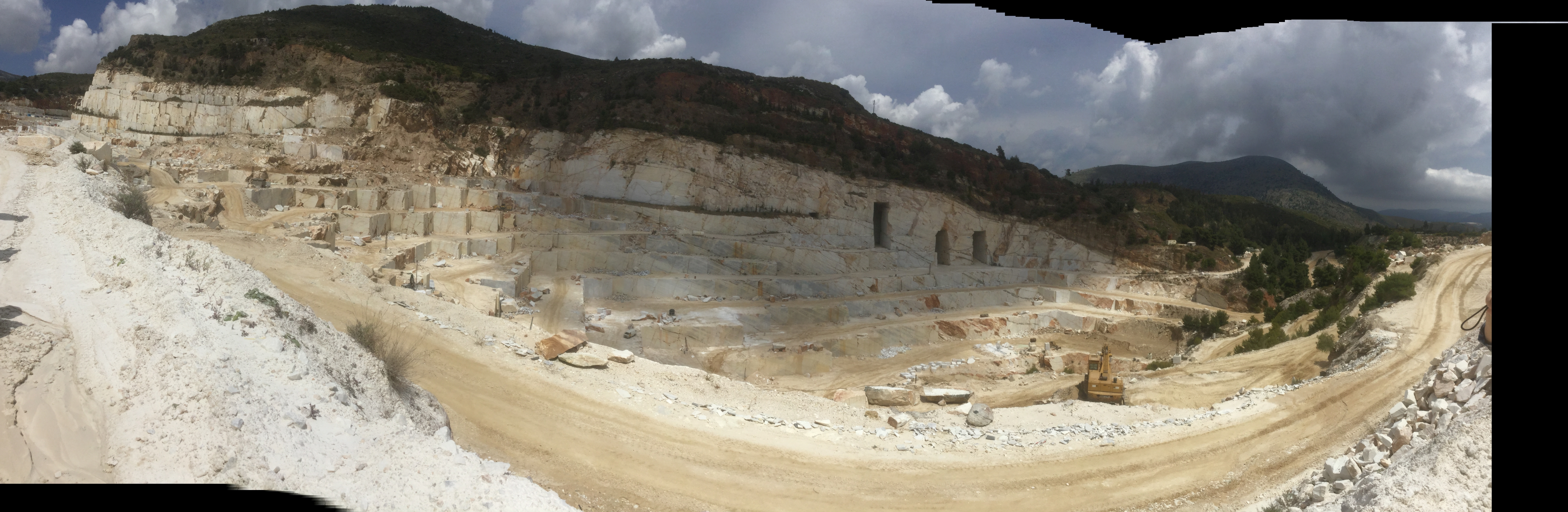 Attica Quarry for production of the world-renowned "Dionyssos-Pentelicon" marble.